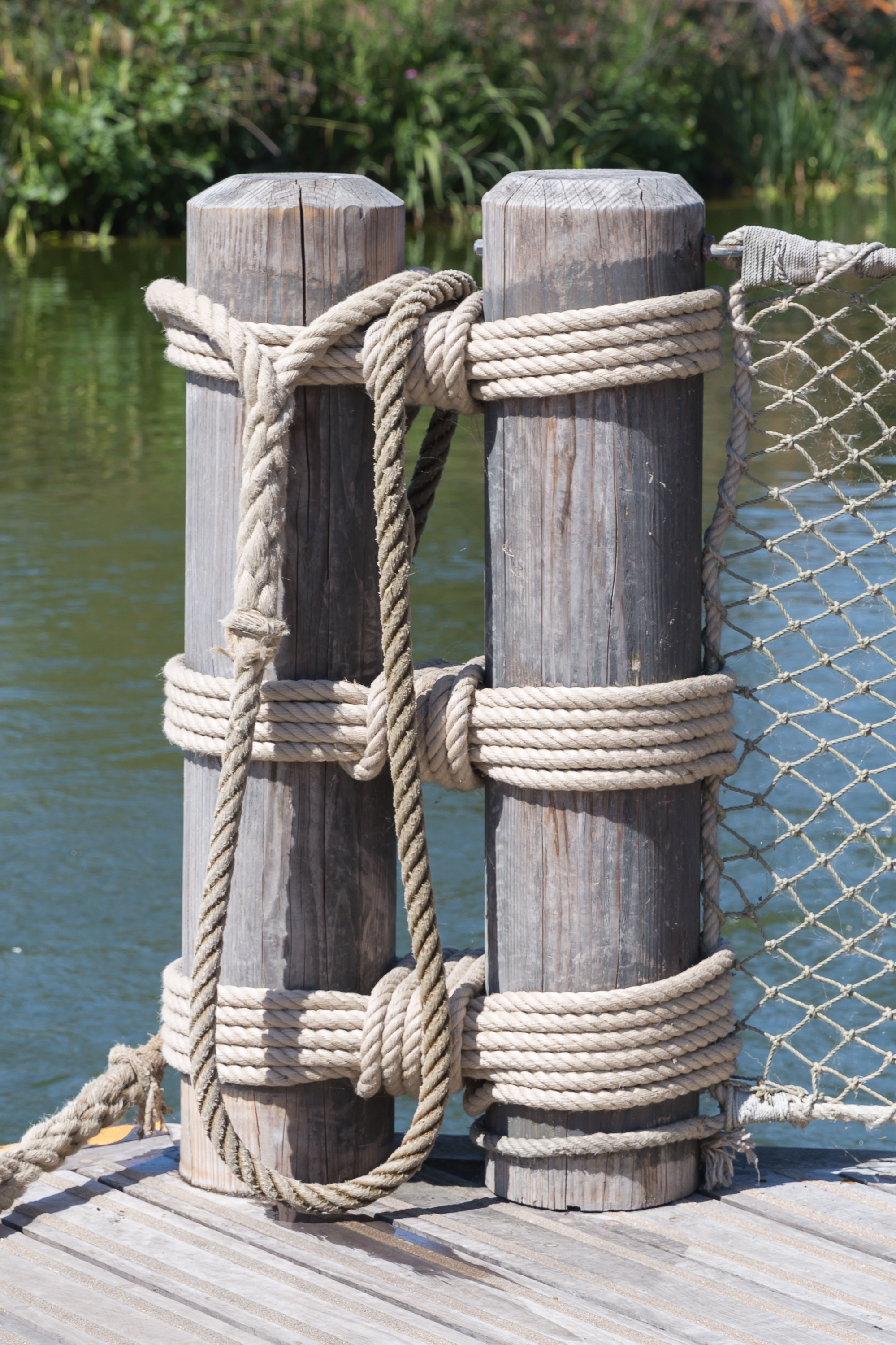 A splice on the dock Molly Brown Riverboat attraction at Disneyland Paris.